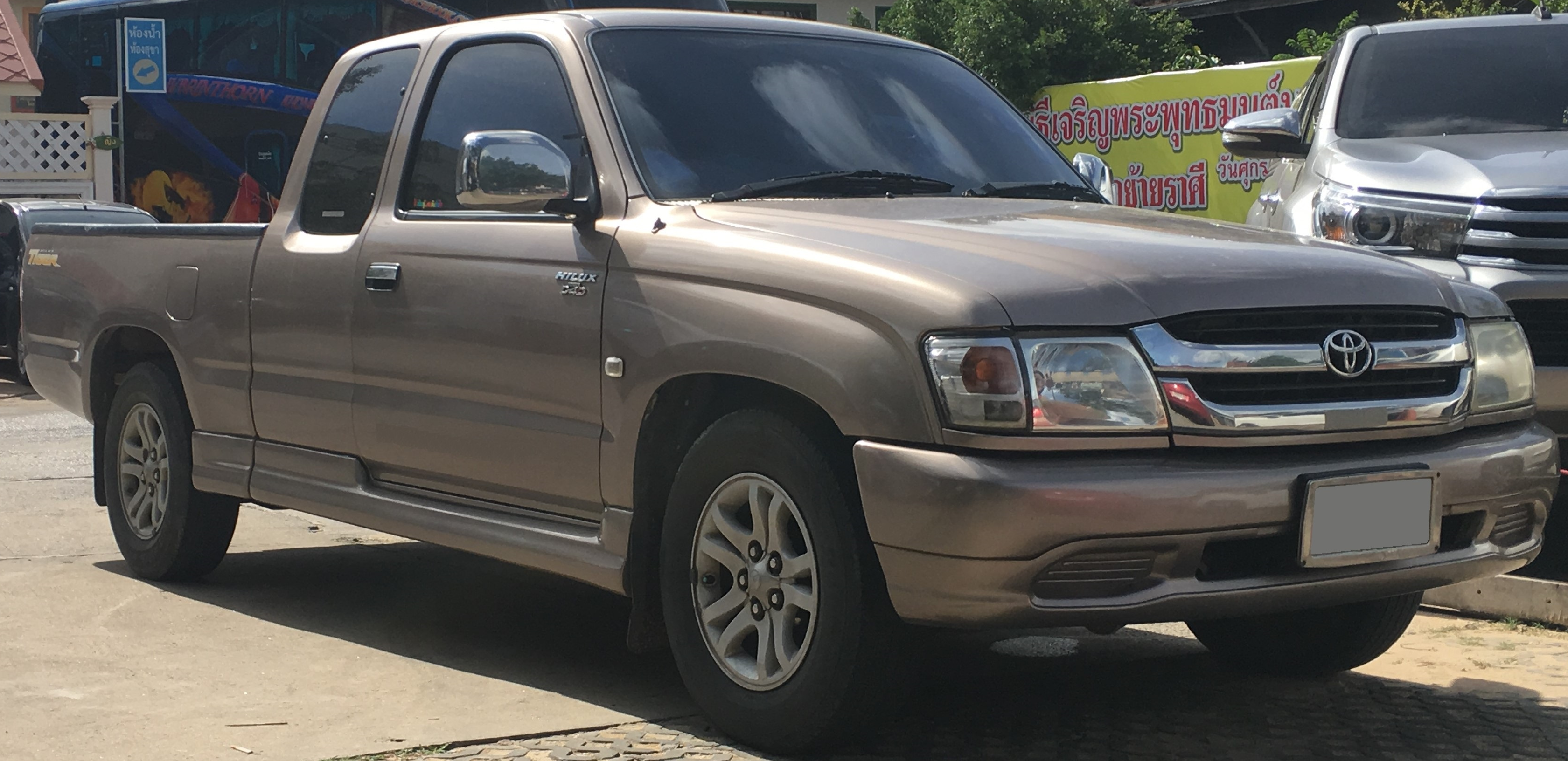 Model: KDN151R-CRMSYT